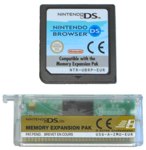 Nintendo DS Browser package contents for Nintendo DS Lite in Europe, photographed by myself (User:Sockatume) using a generic digital camera and edited in Paint Shop Pro 7. If I never have to photograph anything translucent ever again, it will be too soon. Public domain.